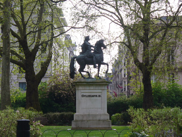 St James's Square Private gardens in the middle of Clubland. The statue is of William III.The horse has one hoof raised, signifying that the king died in office. A rear leg rests on a molehill - causing the king's fatal fall at Hampton Court, 1702.